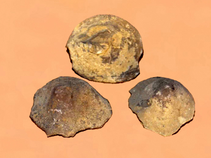 Fossils of Amplexopora petasifomis. Ordovician, Covington (Kentucky)